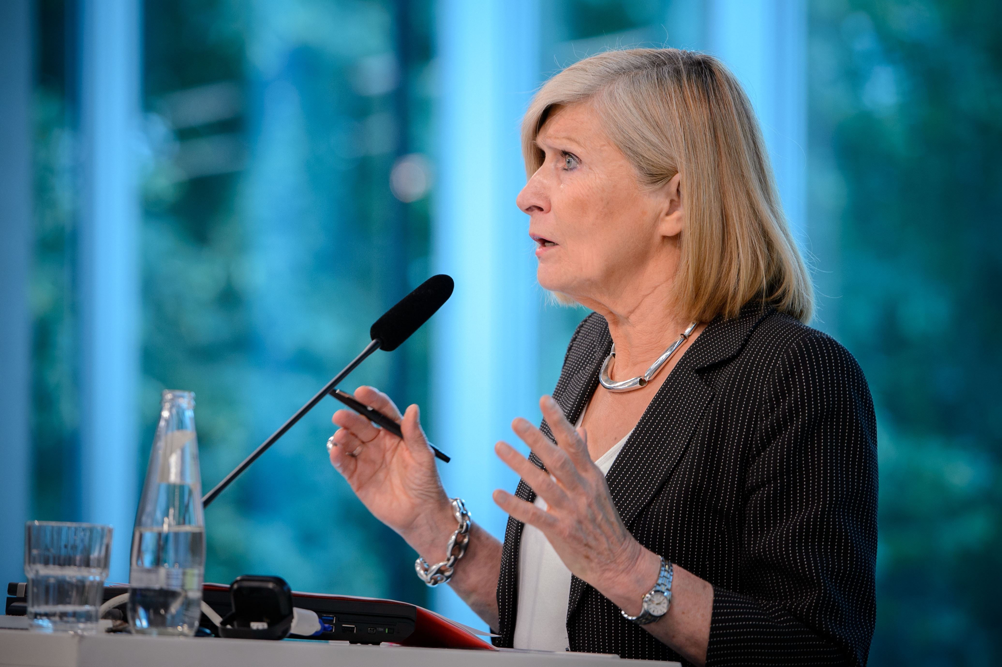 Chantal Mouffe